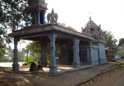 Senneri Temple